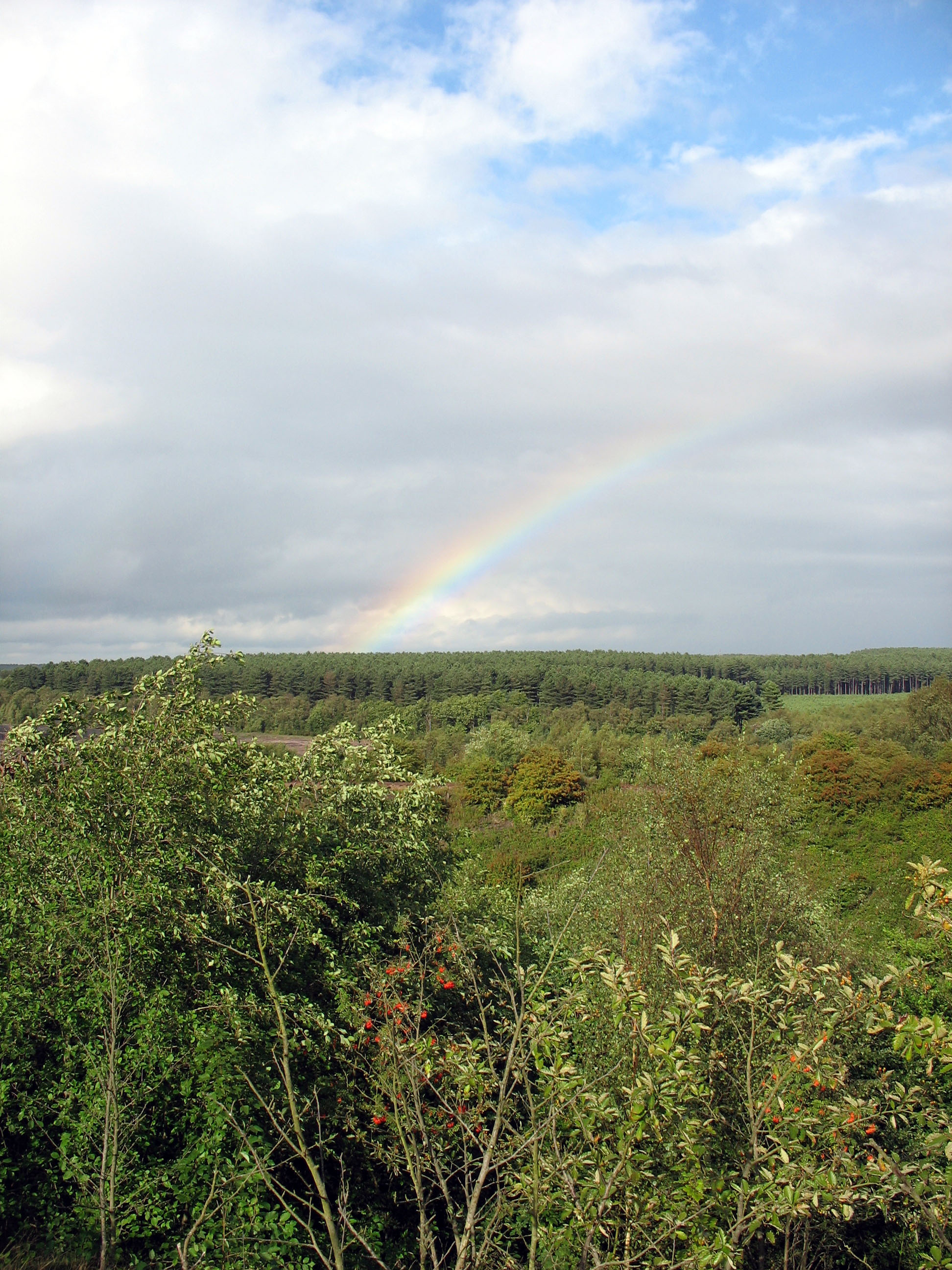 View from the South side of Sherwood Forest, looking Northeast.